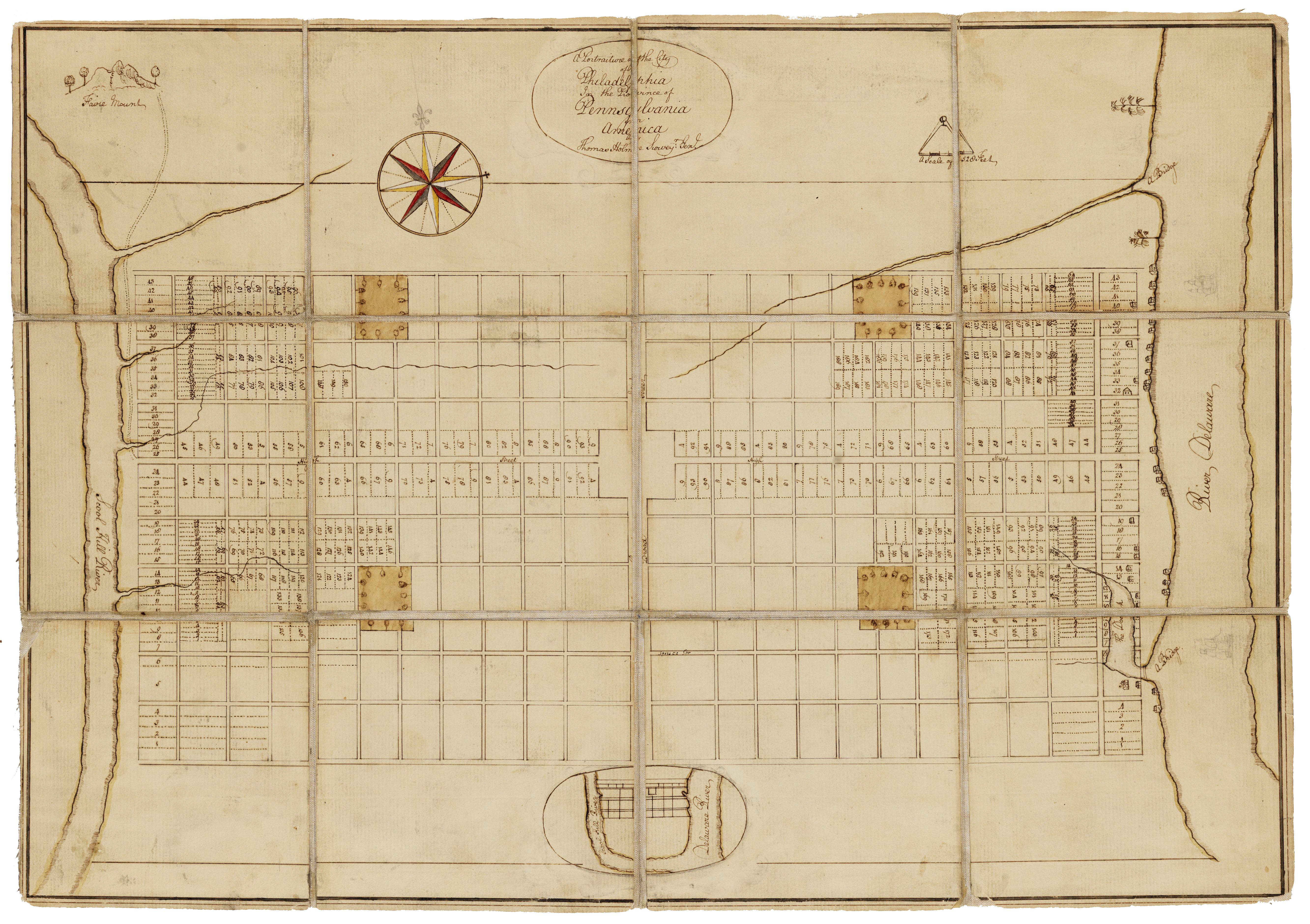 Holme, Thomas (1683). A Portraiture of the City of Philadelphia (map): In the province of Pennsylvania in America. London: Sold by Andrew Sowle in Shoreditch. In 1682, William Penn appointed Holme surveyor-general of Pennsylvania and charged him with the task of laying out the "greene country towne" that Penn envisioned along the Delaware River. The site that Penn acquired for the city of Philadelphia stretched two miles east to west across a tract of land situated between the Delaware and Schuylkill Rivers; all told, the rectangular grid of land comprised twelve thousand acres. Holme imposed an orderly grid plan on the site, with streets organized around a large square in the center of the town and four smaller squares, one in each quadrant. The grid also included two main streets, Broad and High (present-day Market), which were kept wide in hopes of preventing the kind of fire that destroyed London in 1666. Completed in 1683, this map was used for both reference and promotional purposes to show the unique layout of William's Penn emerging city. From the Historical Society of Pennsylvania